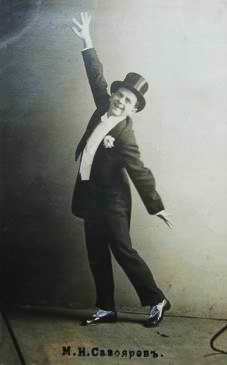 "Le Roi de Excentrique" - russian poet, composer, chansonnier Mikhail Savoiarov (postcard ~ 1912)